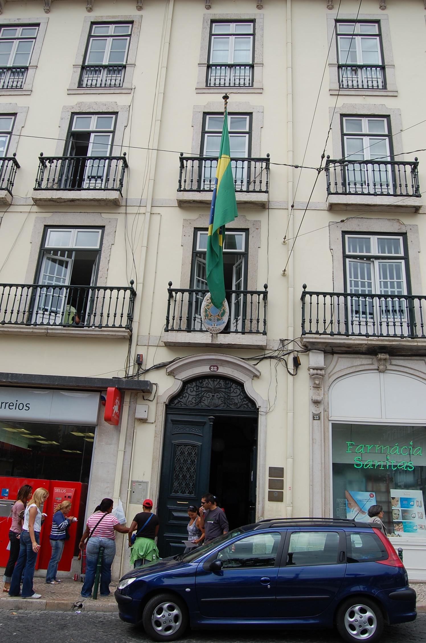 Consulate-General of Brazil in Praça Luís de Camões, Lisbon, Portugal.